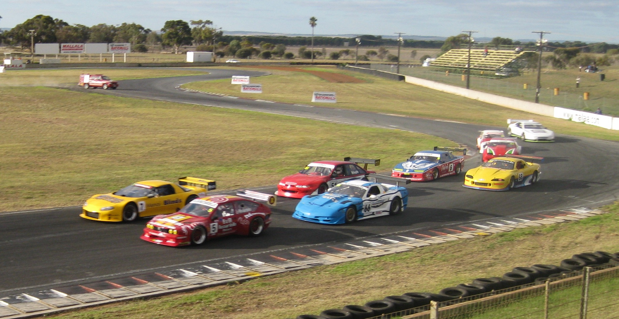 The start of Race 3 of Round 1 of the 2011 Kerrick Sports Sedan Series at Mallala Motor Sport Park. Tony Ricciardello (No 5 Alfa Romeo GTV) leads Scott Butler (No 7 Chevrolet Camaro), Dean Camm (No 66 Chevrolet Corvette), Bob McLoughlin (No 51 Holden VS Commodore), Shane Bradford (No 68 Chevrolet Camaro), Jeff Barnes (No 6 Pontiac Firebird), Colin Smith (No 44 Rover Vitesse), Damien Johnson (No 19 Holden LJ Torana) and Anthony Macready (No 97 Nissan 300ZX). Butler won the race!